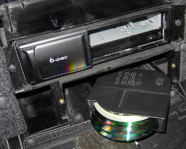 Author: Joonga